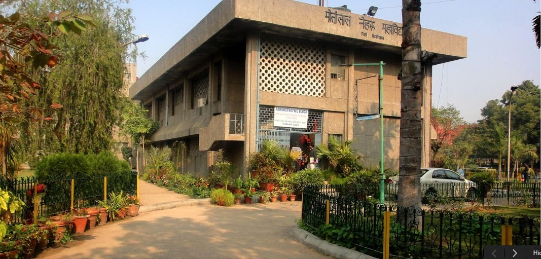 Admin buliding of Motilal Nehru College